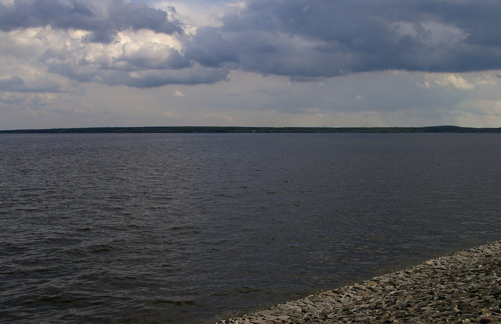 Turawa Reservoir, Opole Voivodship, Poland.